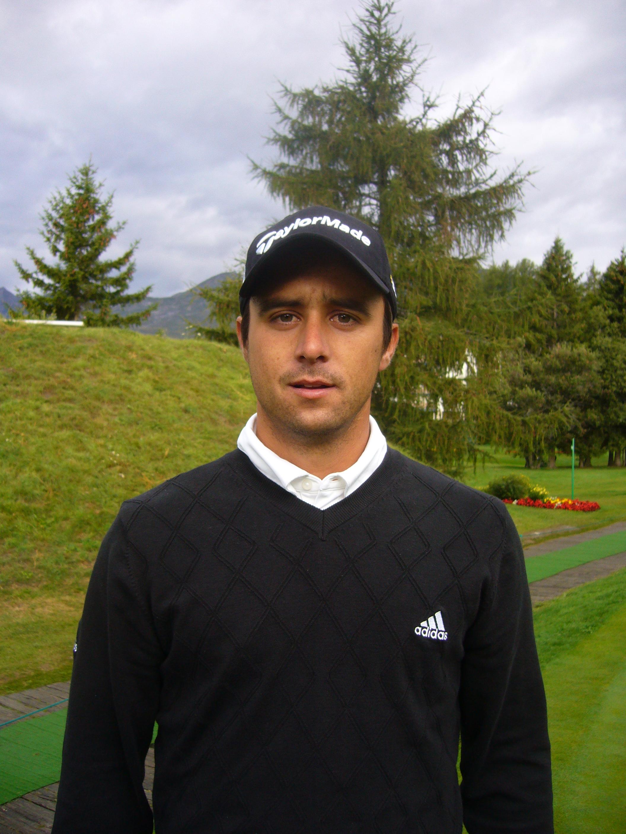 Rafa Enchenique, Argentinian golfer